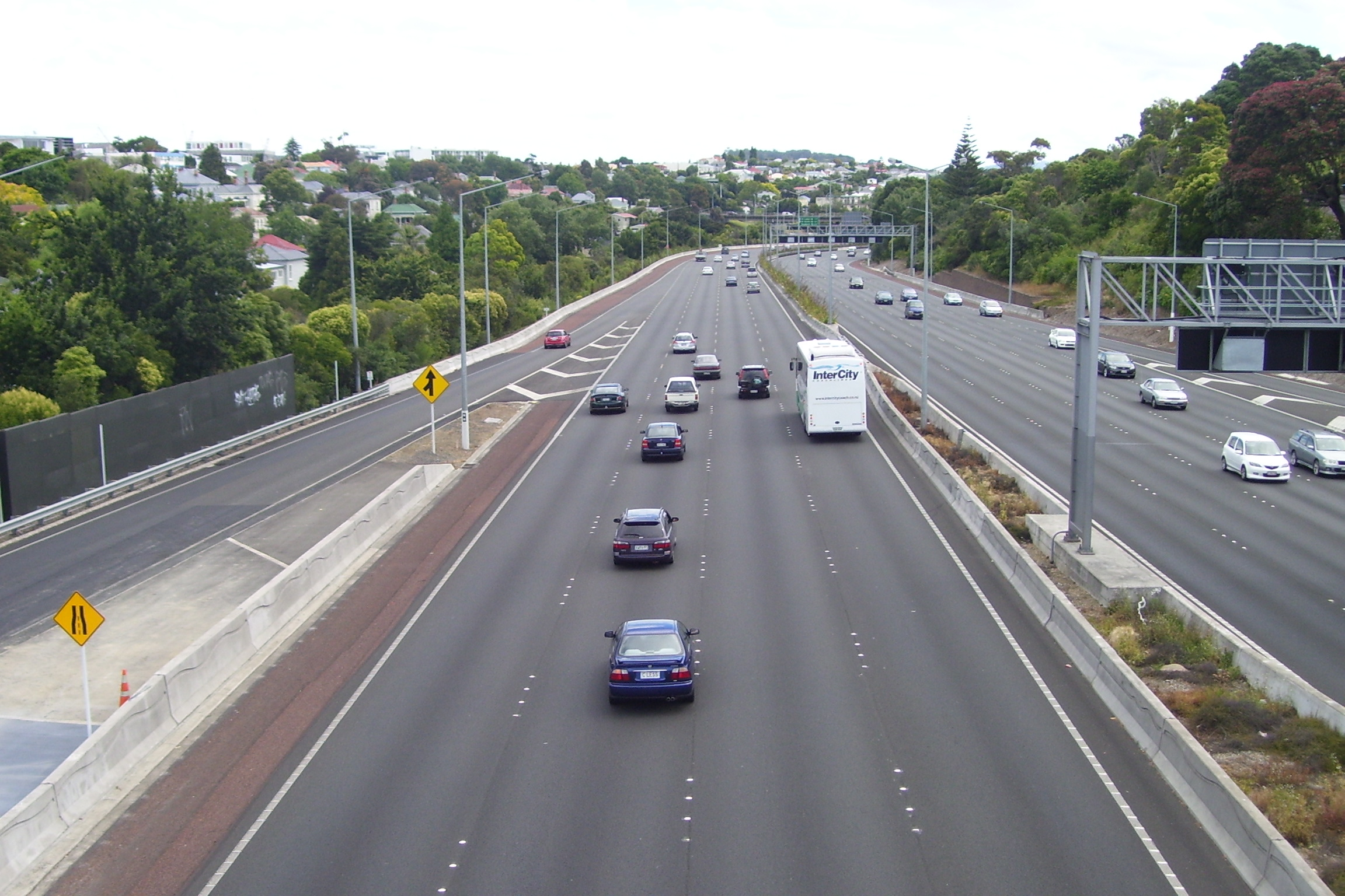 View of the Northwestern Motorway between Newton Road and Bond Street. The onramp on the left is the Newton Road onramp.